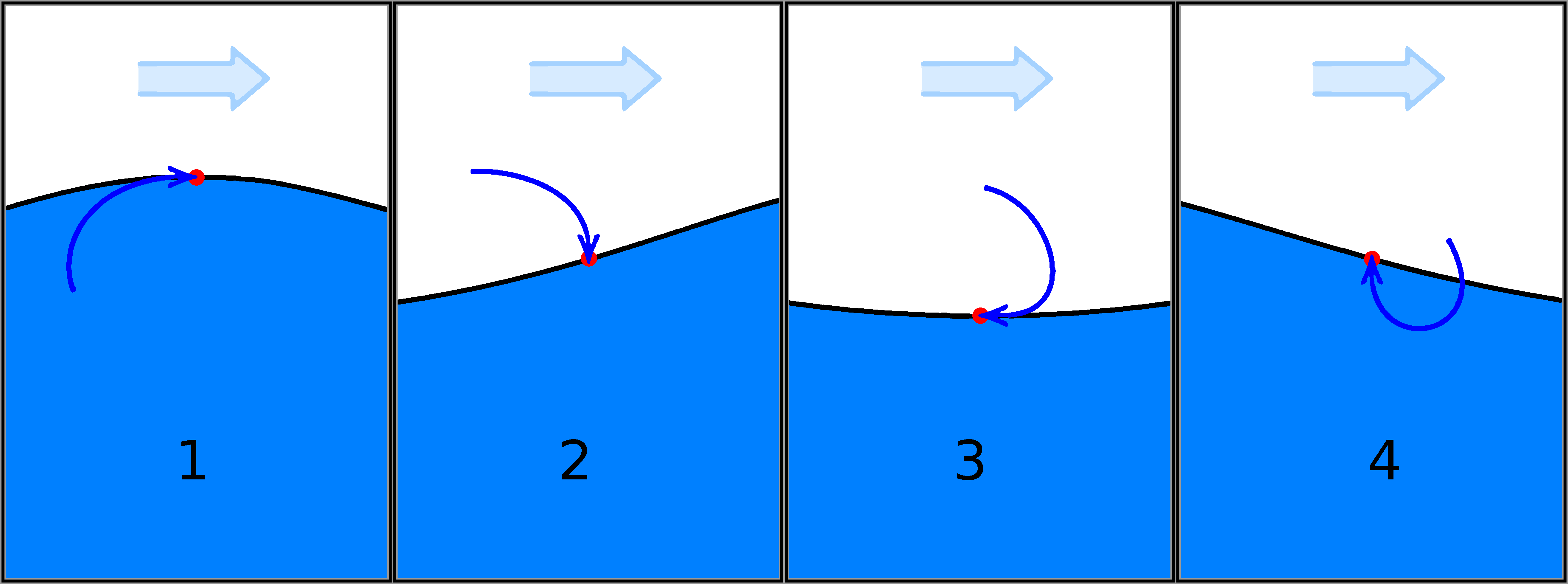 four phases of ocean wave motions - numbered